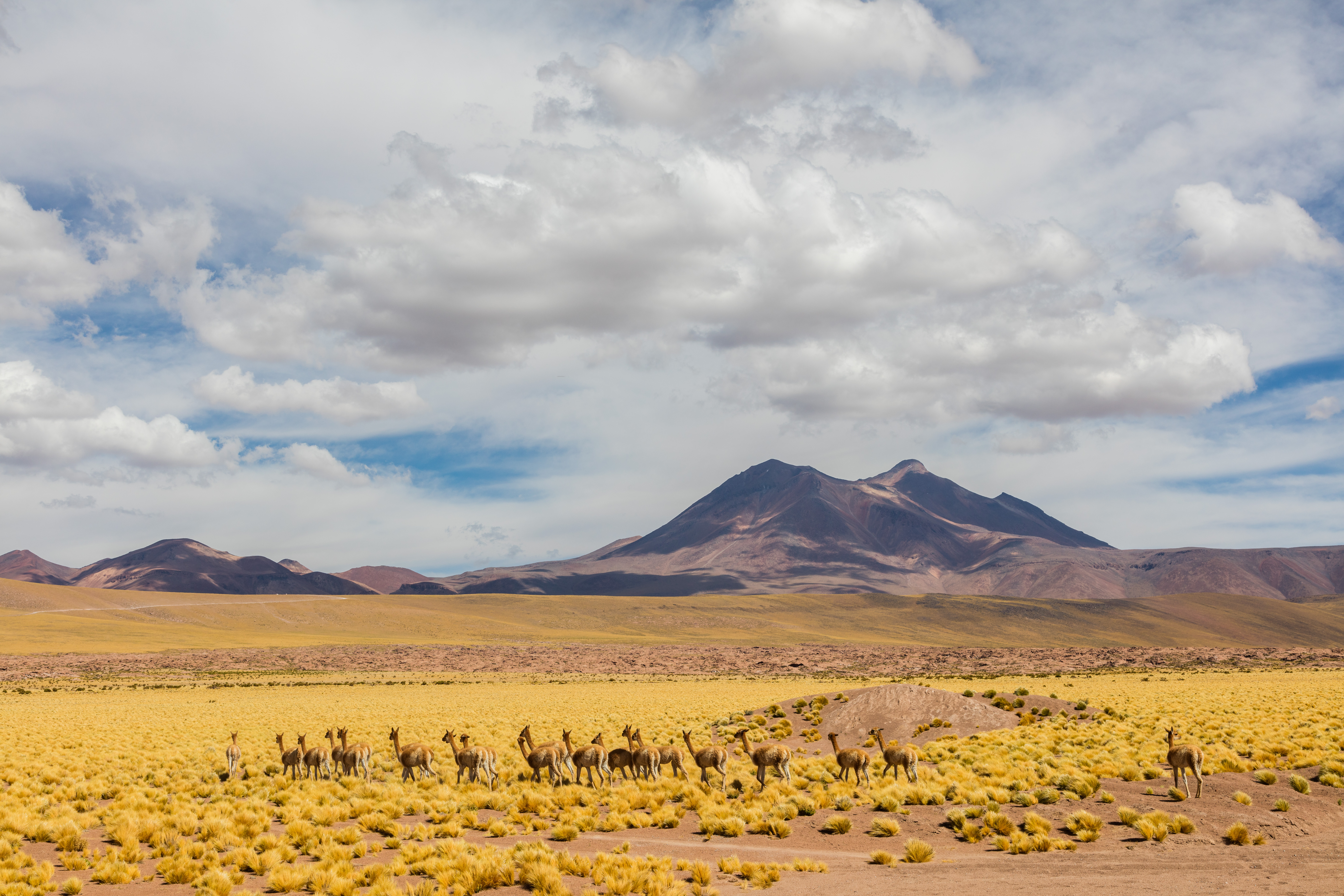 Miñiques Volcano, Chile